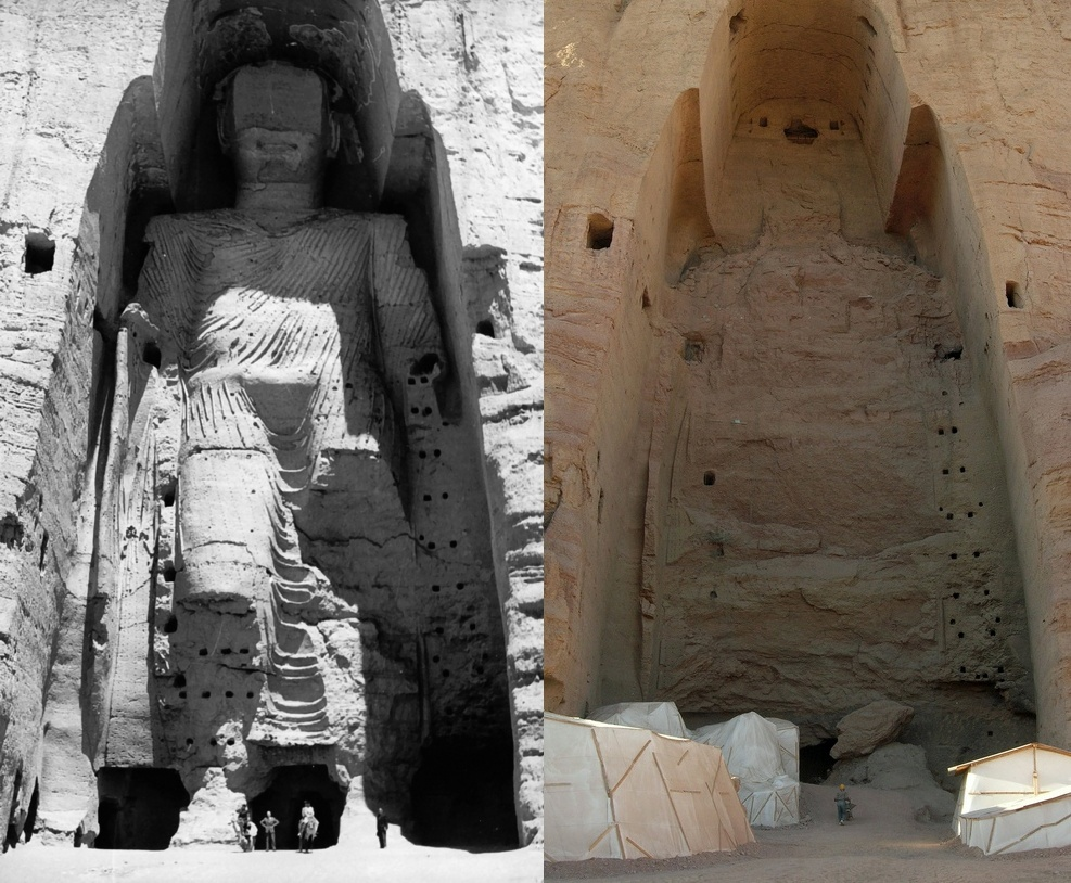 The taller Buddha of Bamiyan before (left picture) and after destruction (right). To distinguish the two statues (55 m and 37 m) from each other: Look at the form of the statues niche. The niche of the taller Buddha is much more precise.